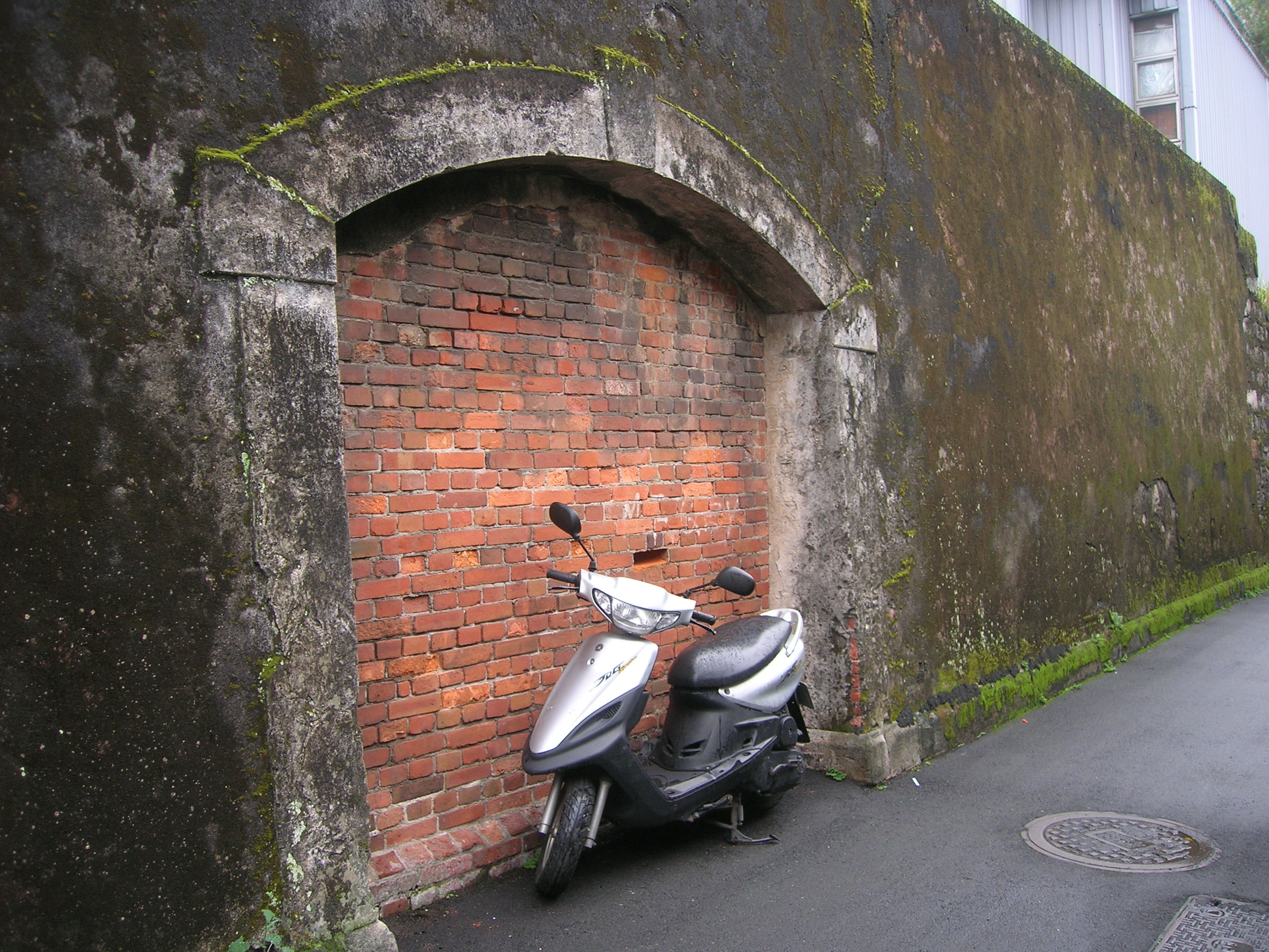 Remains of Taipei Prison Gate and Yamaha Jog.中文（台灣）: 臺北監獄圍牆遺蹟運屍門與山葉Jog機車。運屍門現已用紅磚封死。